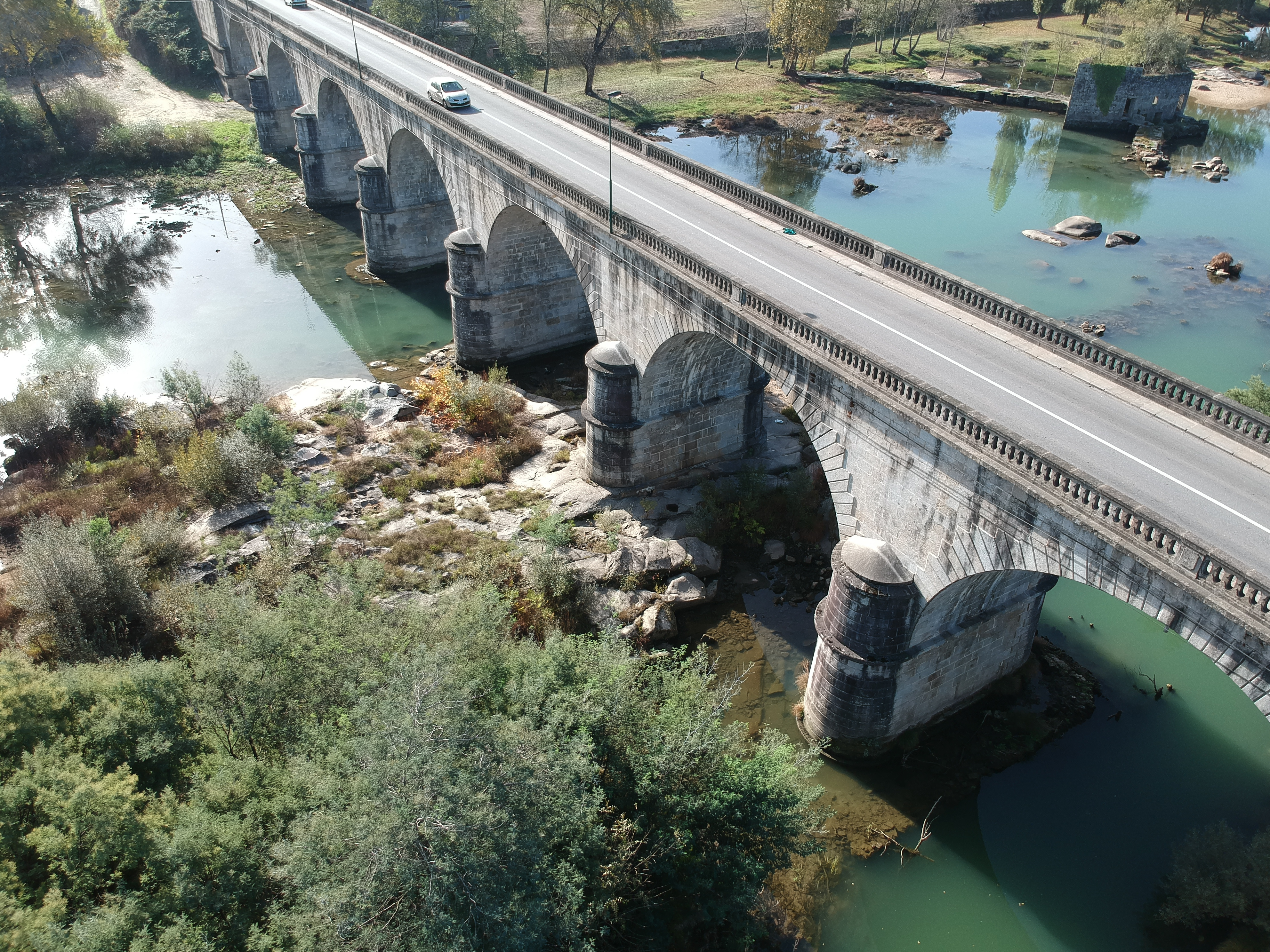 Ponte do Bico Bridge over the Cávado in Braga/Vila Verde, Portugal.